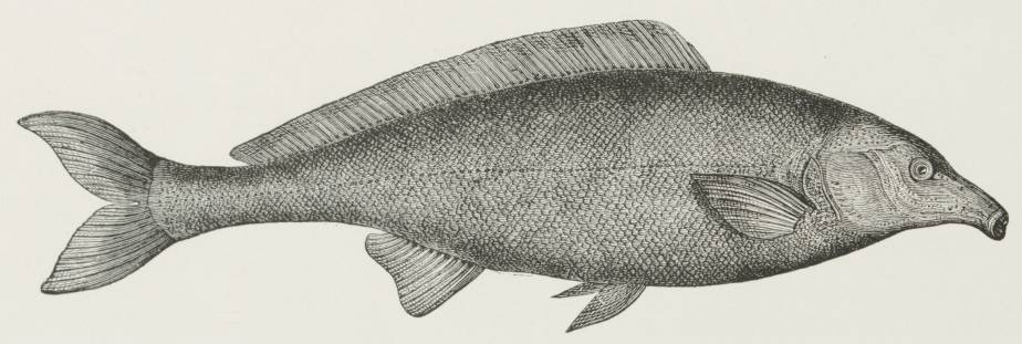 Mormysus oxyrrhynchus (Kanooma) = Mormyrus kannume, a fish of the Nile.